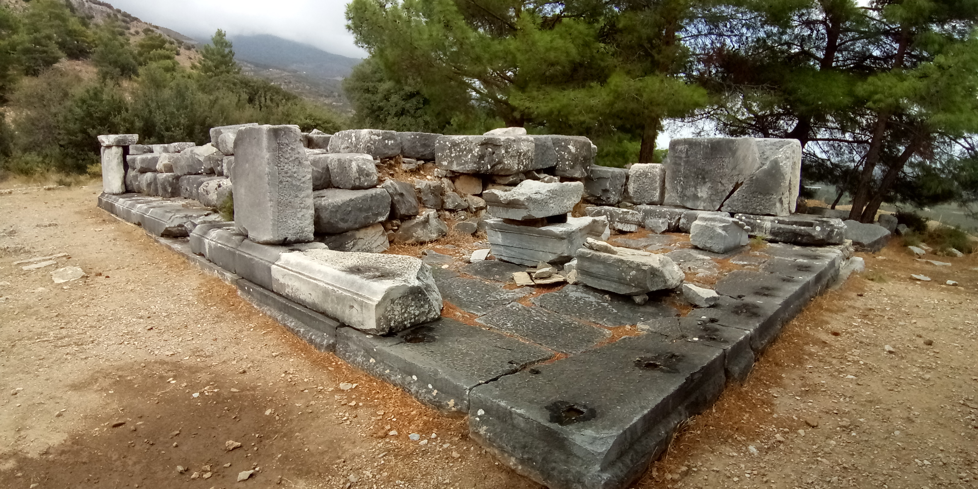 Temple of the Egyptian Gods, Priene, looking northeast